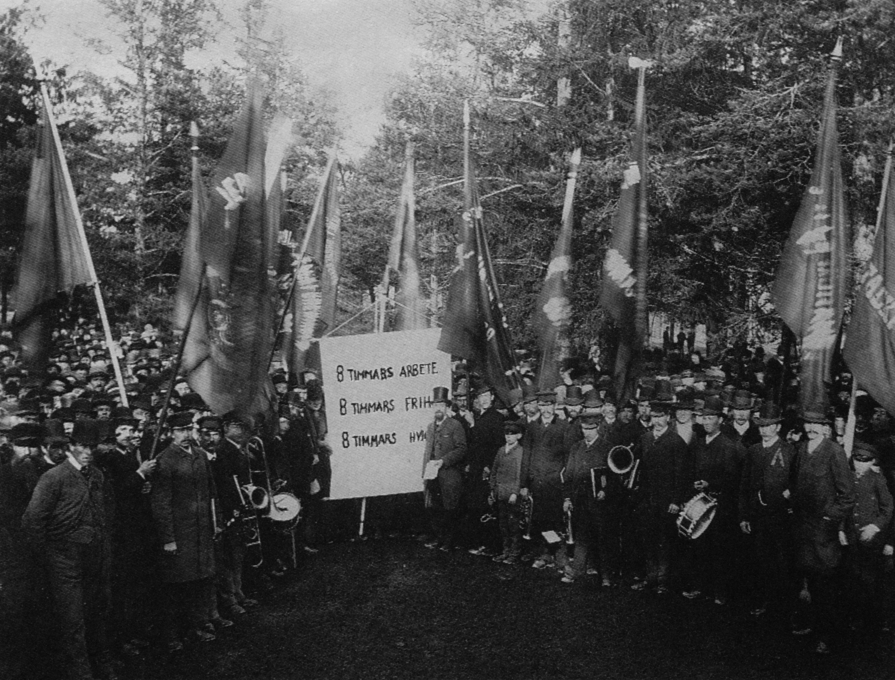 Photograph by Herr Axelsson from Skönvik, Sweden. May first 1890, demonstration in Sundsvall, Sweden. This particular version is a reproduction (photograph) of a publication of the photograph in the book "Klass i rörelse - arbetarrörelsen i svensk samhällsomvandling" (2004), page 25.